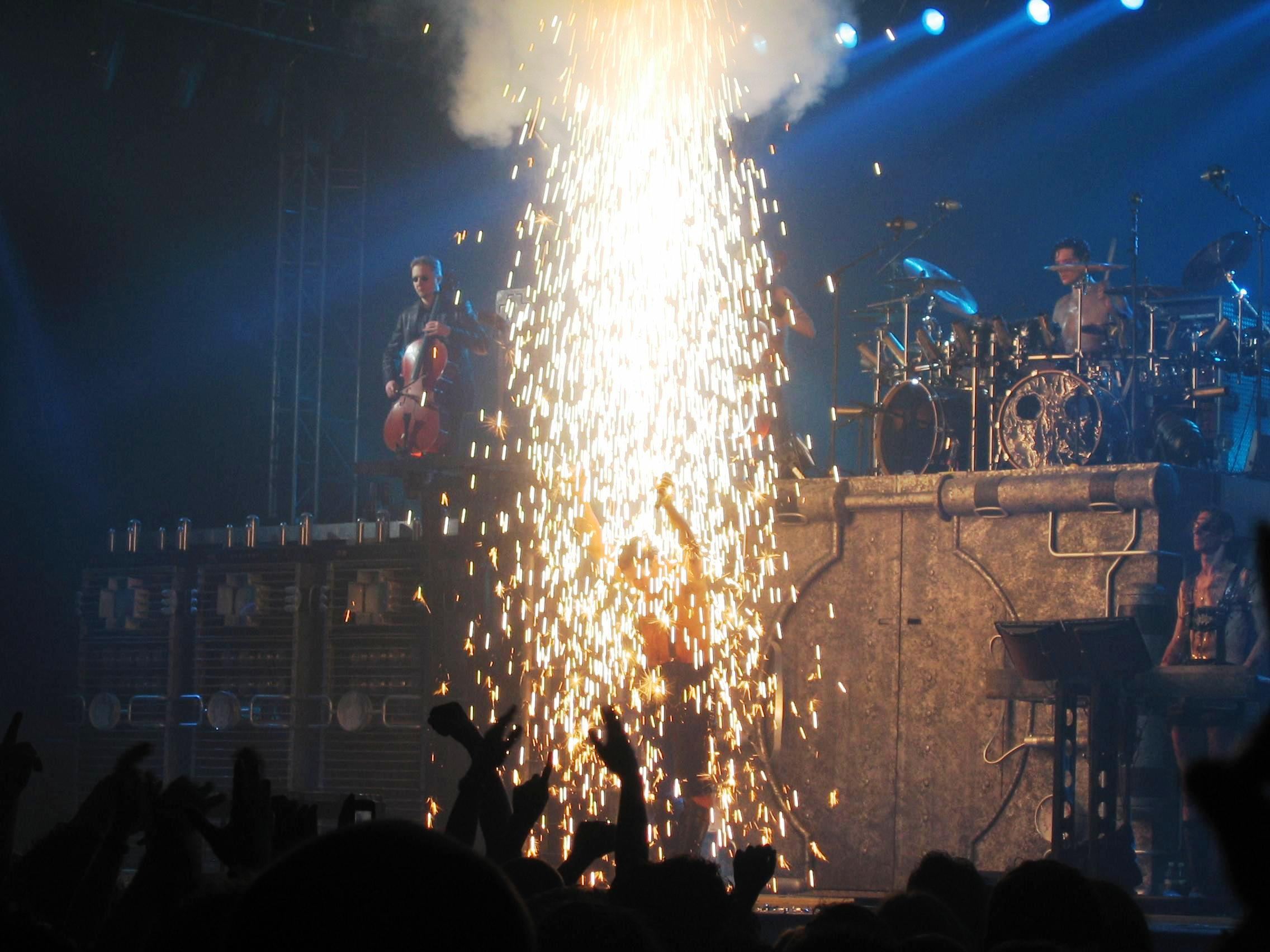 The band Rammstein in concert in 2005.